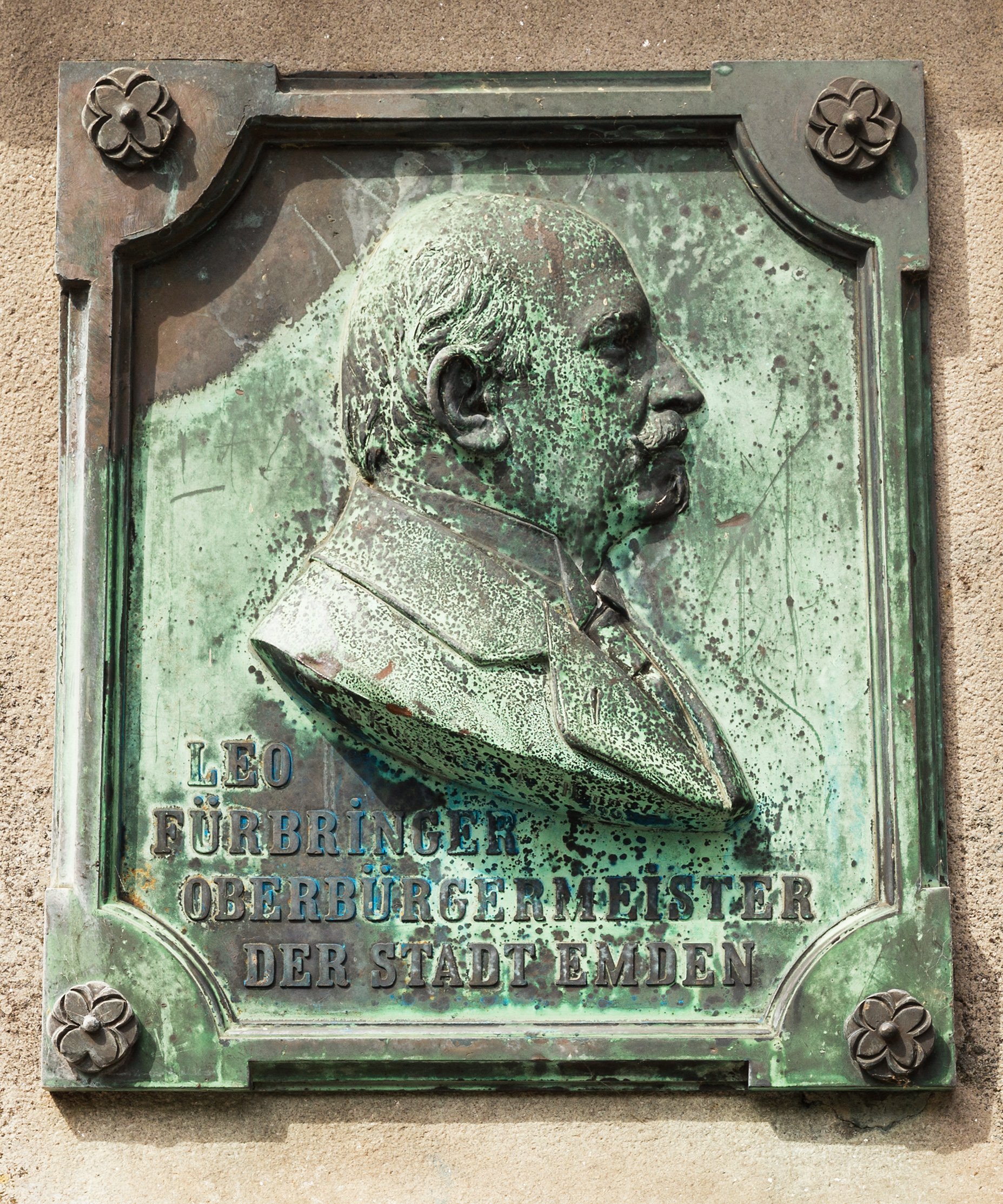 Leo Fürbringer (former mayor in Emden), plaque in Emden